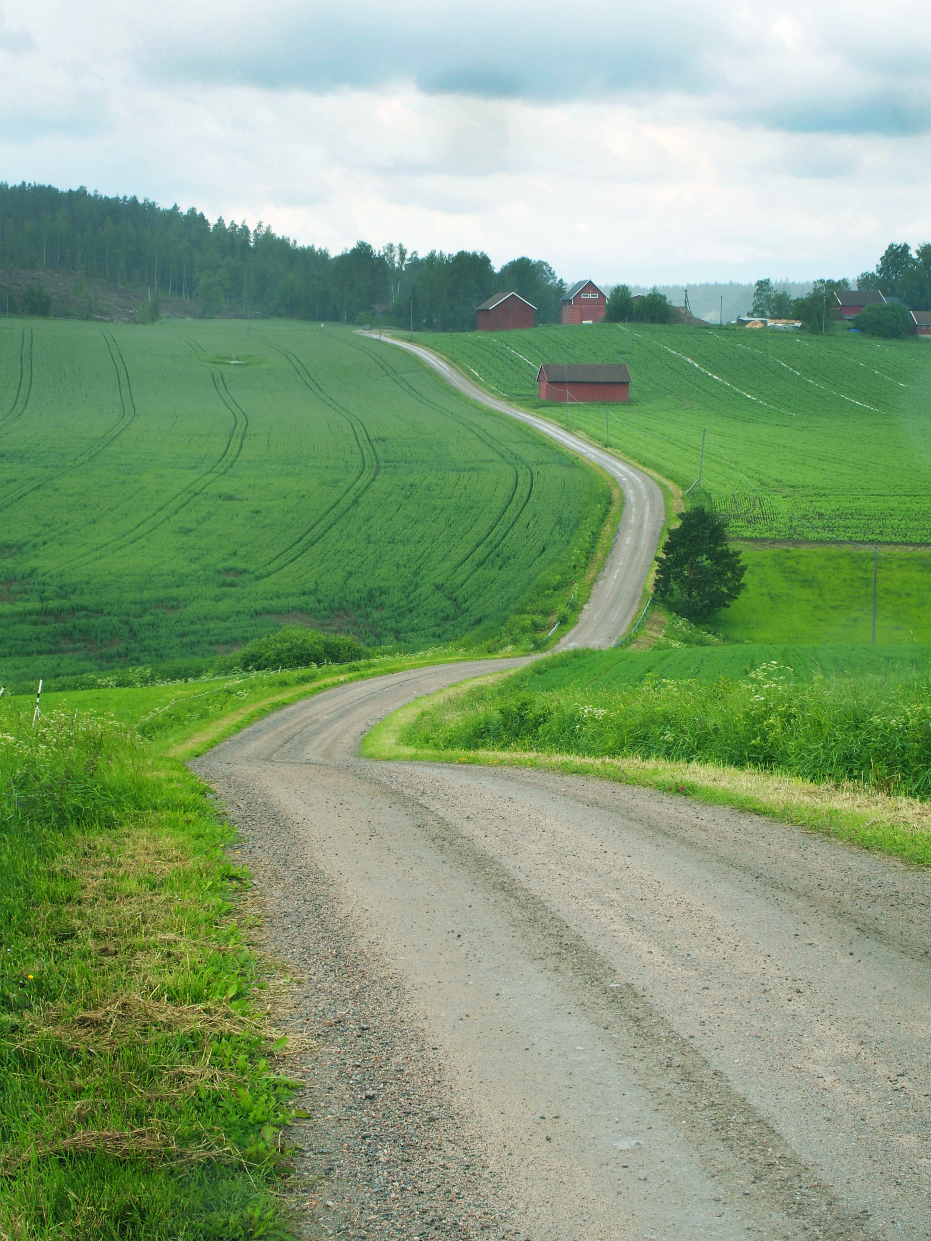 Jokikaustantie approaching Villikkala from the south. Halikko, Salo, Finland. June 2014.